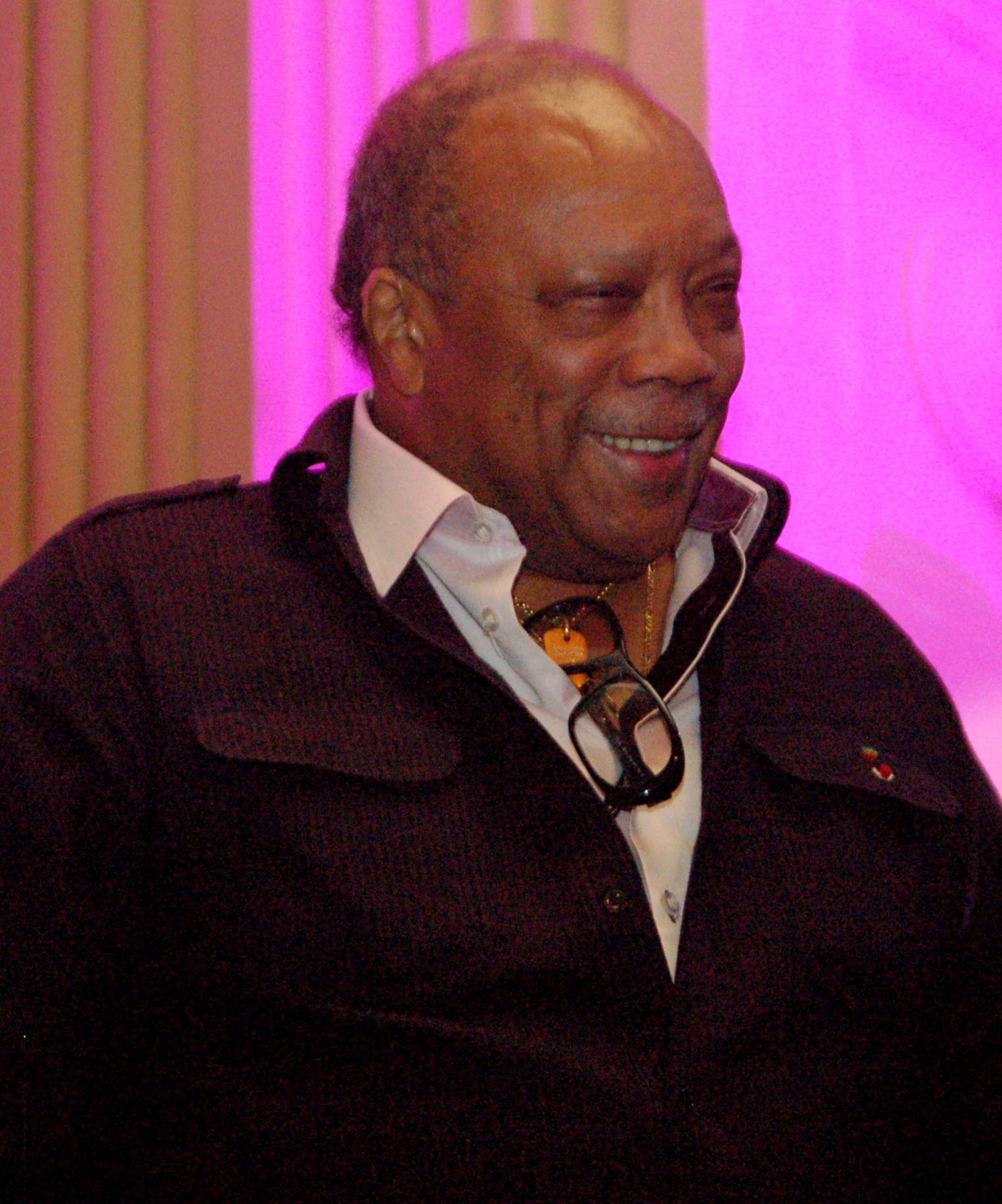 Quincy Jones at a performance of The Hot Chocolate Nutcracker in December 2010.